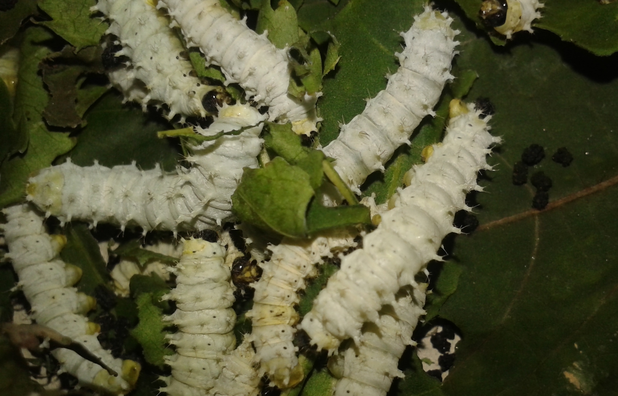 Samia cynthia ricini worms feeding on castor leaves. Eri silk comes from these worms.